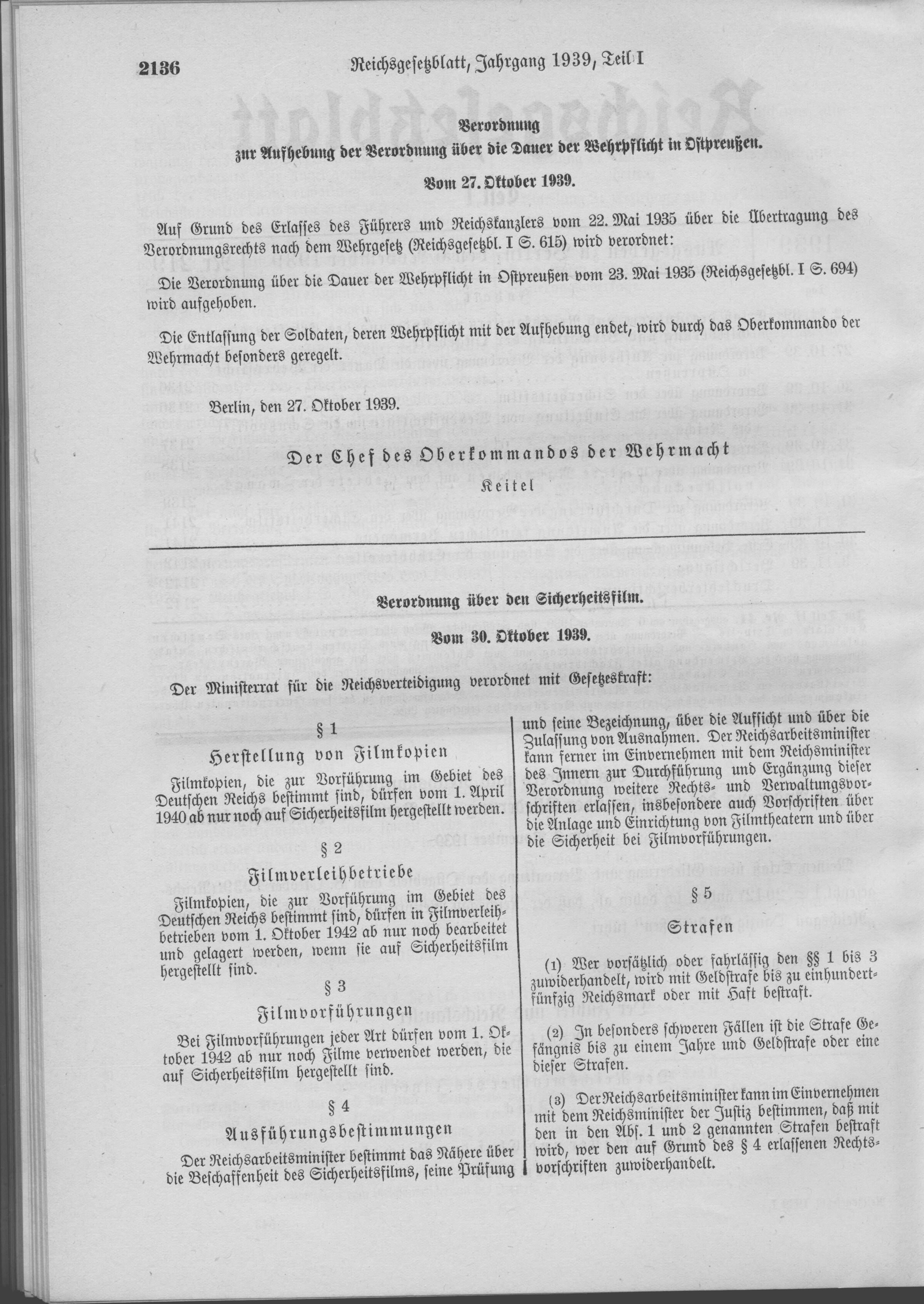 Scan from the Imperial Law Gazette of Germany, 1939, part 1